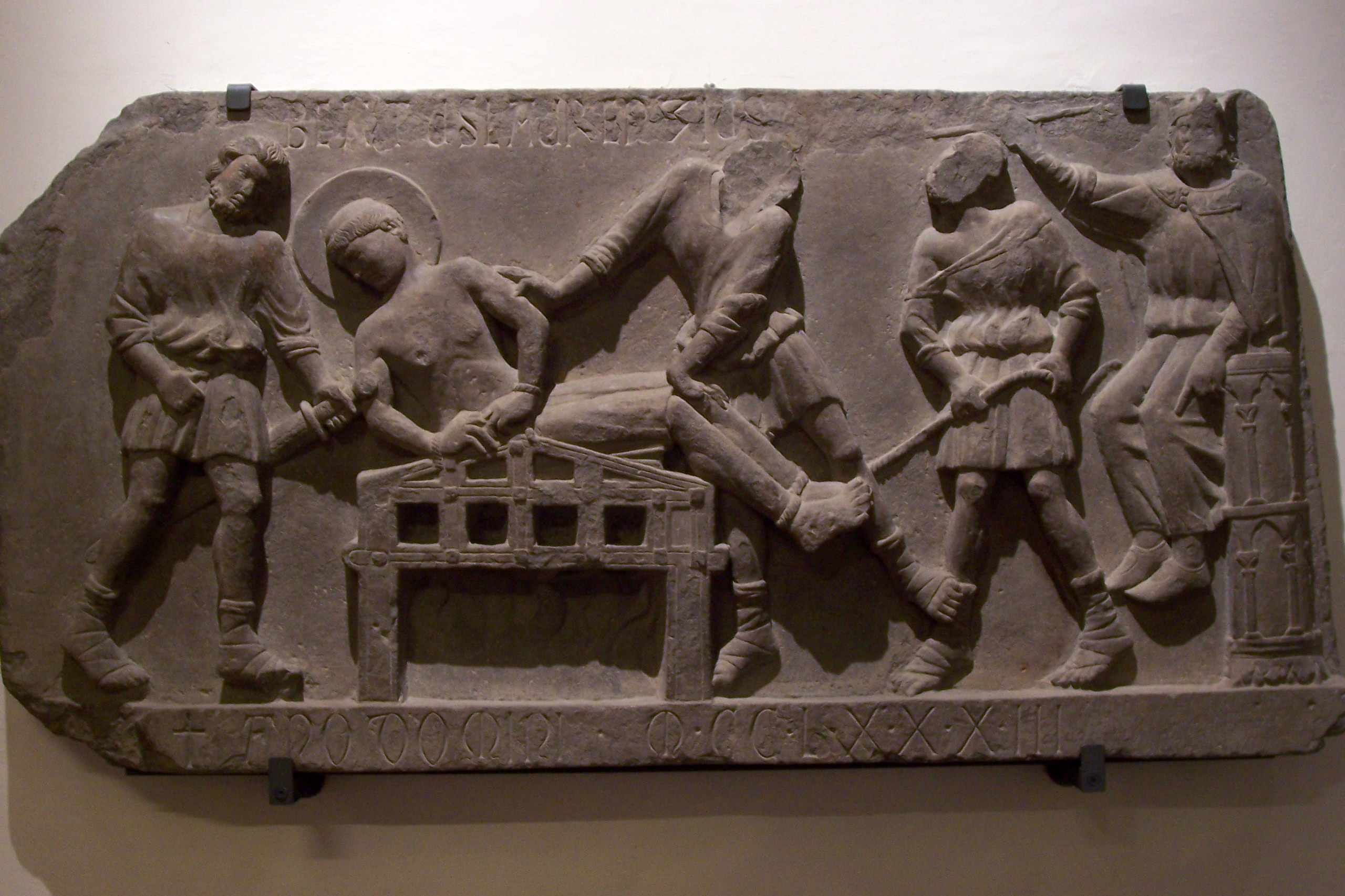 The martyrdom of Saint Lawrence. Montevarchi, Collegiata di San Lorenzo Museum